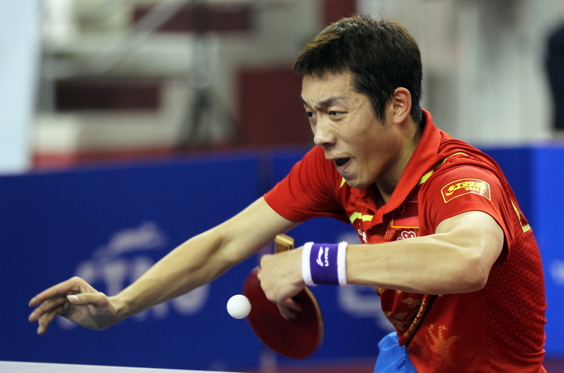 China's Xu Xin hits a backhand against compatriot Wang Hao in the men's final of the Qatar Open table tennis at the Qatar Women's Sport Committee Indoor Hall. Picture by Mohan